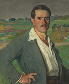 author died 1937, picture is free